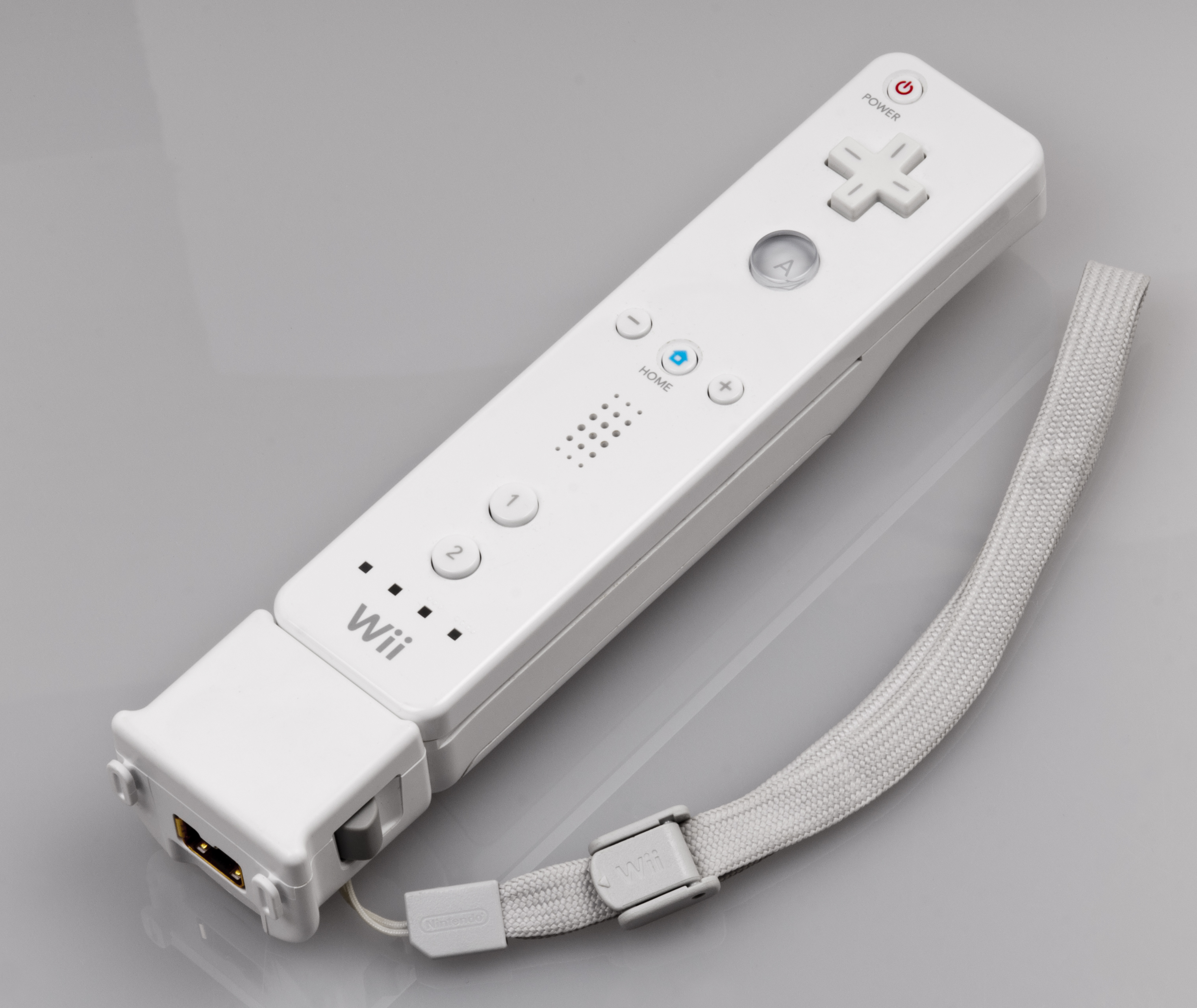 A Wiimote with the Motionplus attachment in place.